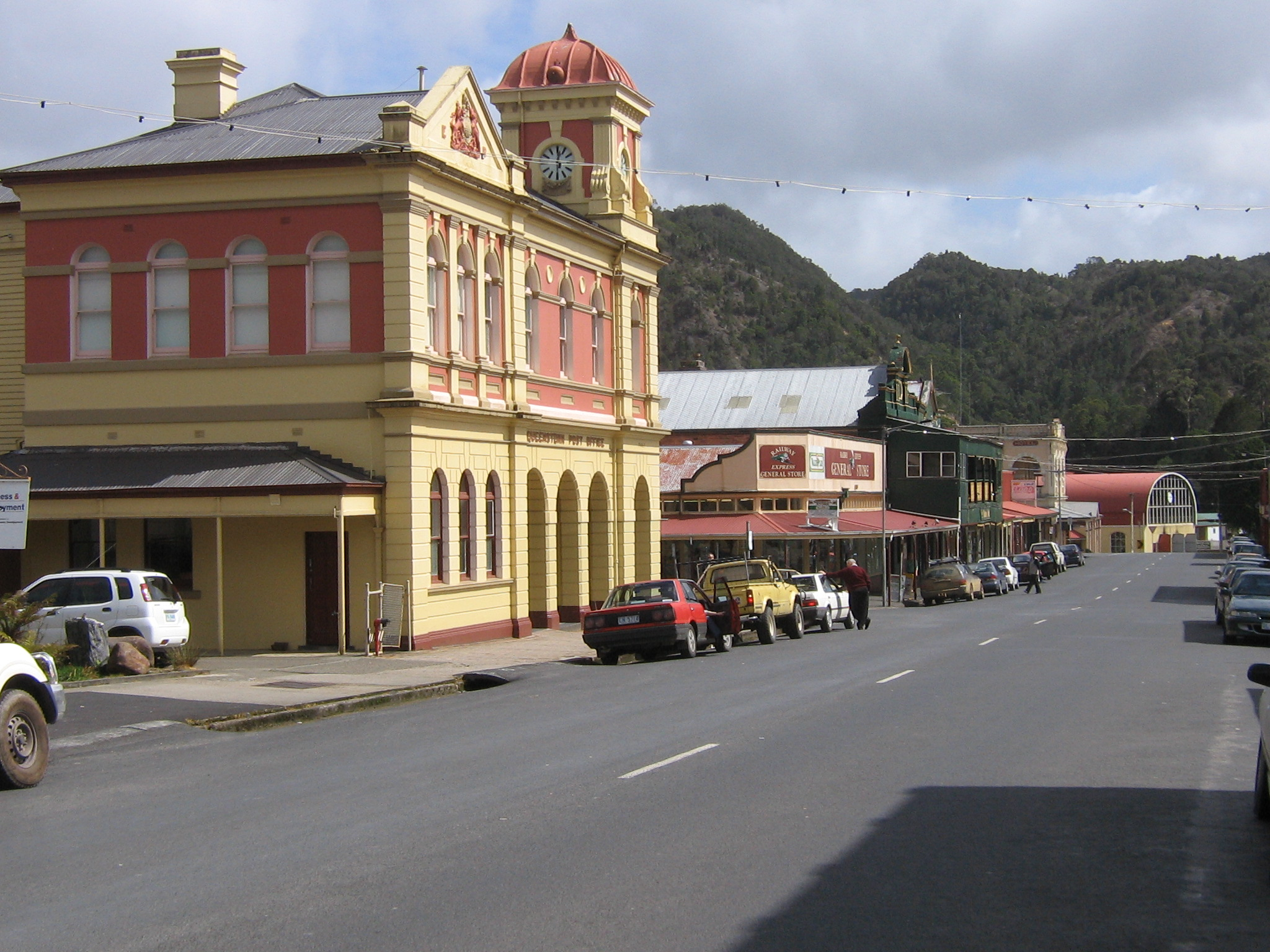 View of south side of Orr Street in Queenstown, Tasmania showing post office and other buildings